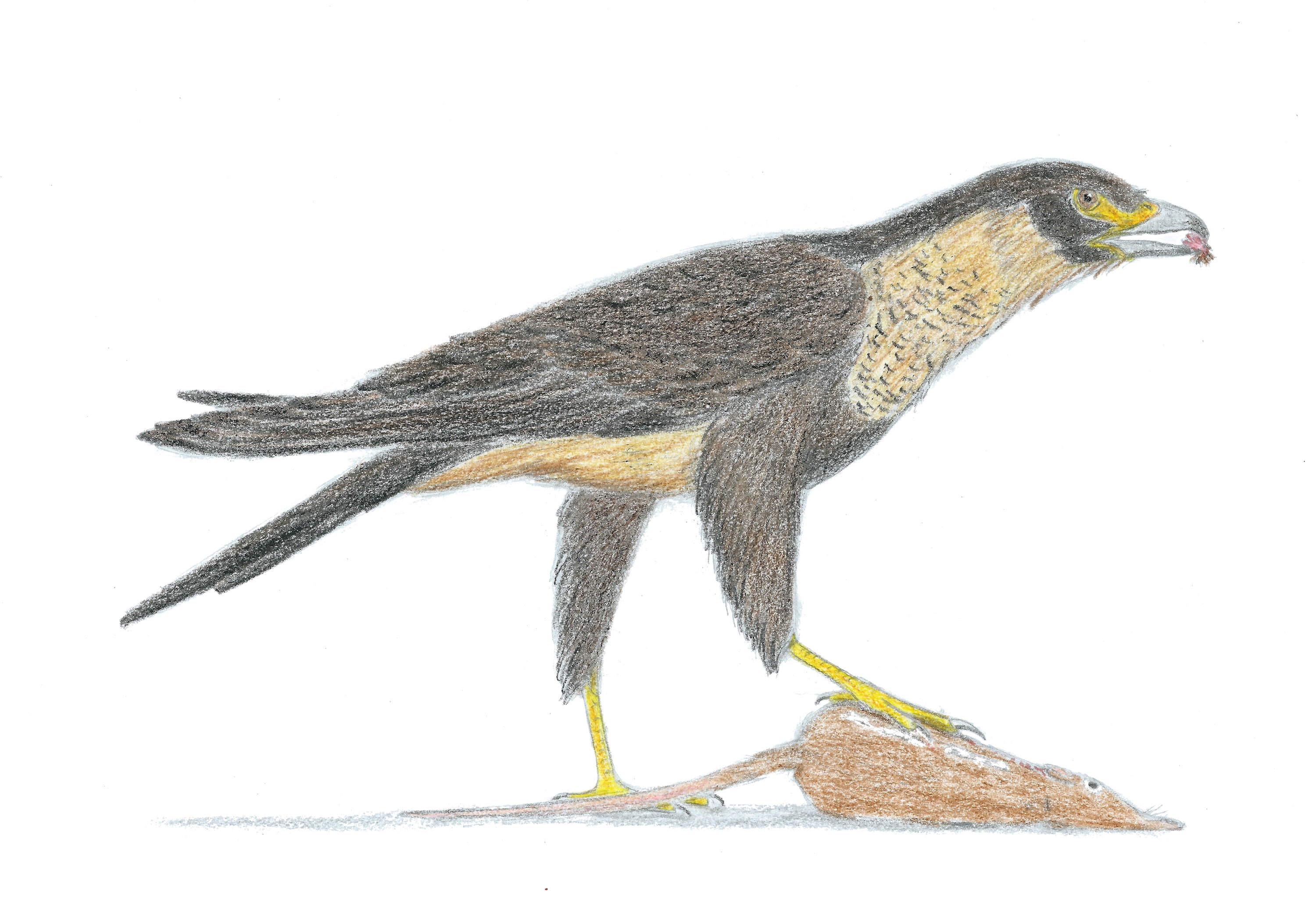 Life restoration of Masillaraptor parvunguis, an early relative of the falcons from the Eocene of Germany